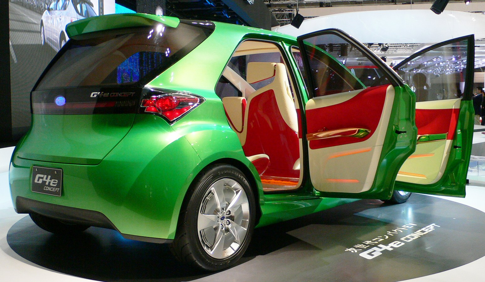 'Subaru G4e Concept photographed in Tokyo Motor Show 2007